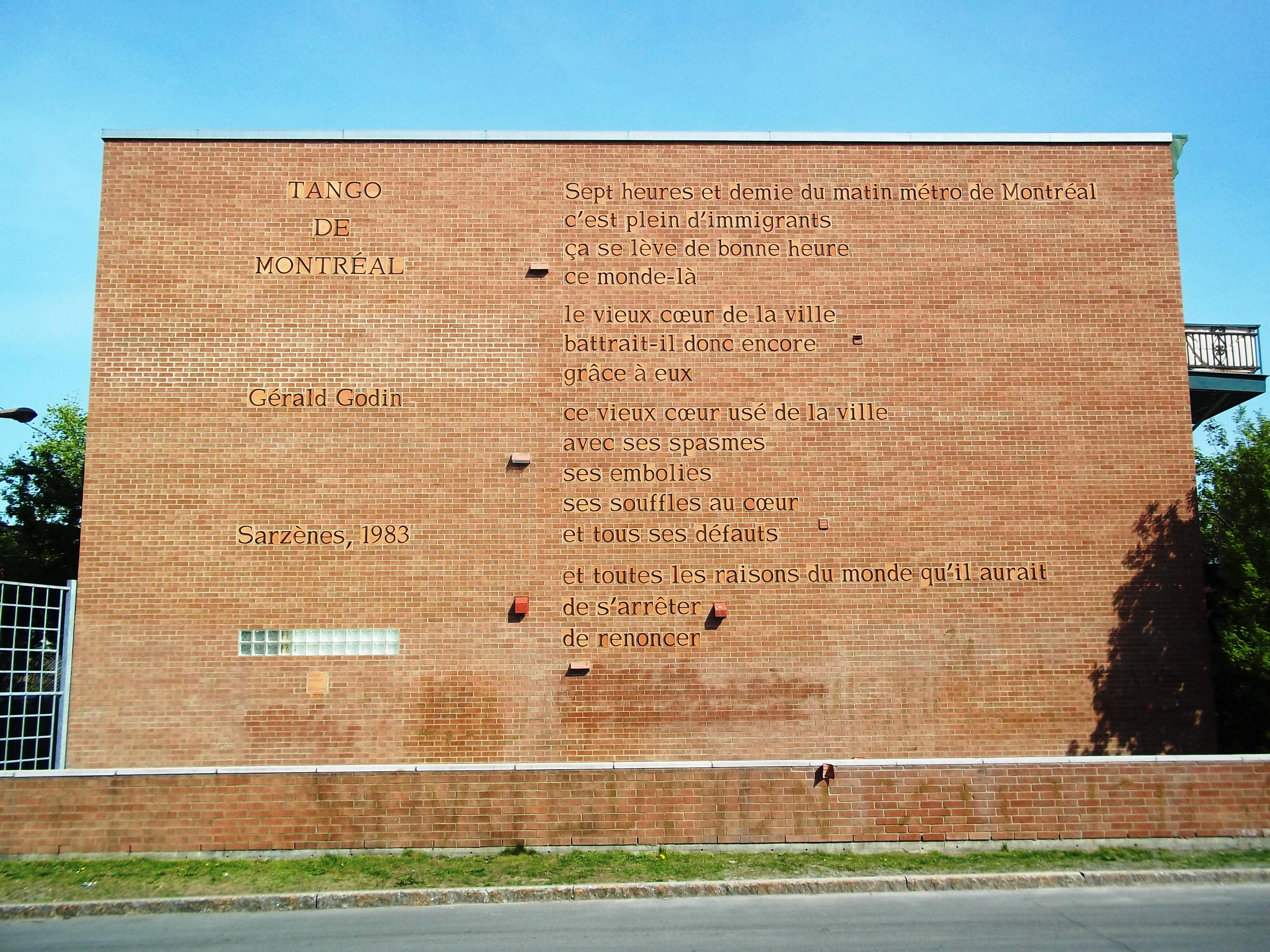 Tango de Montréal, poème de Gérald Godin, sur un mur de Montéal